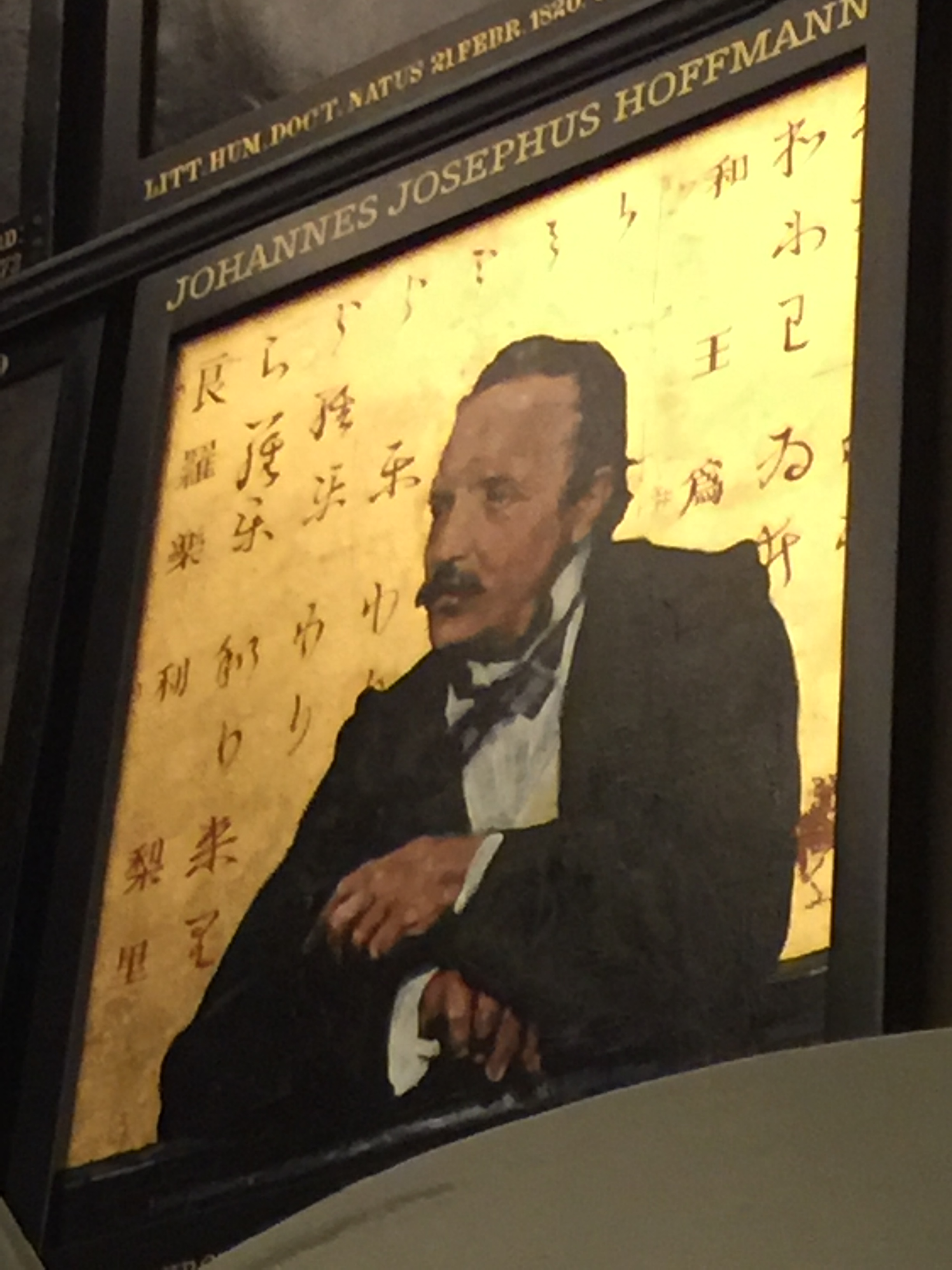 Johannes Joseph Hoffmann (1805-1878), honorary professor of Chinese and Japanese languages at Leiden University